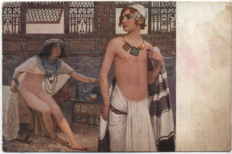 Joseph and Potiphar's Wifelabel QS:Len,"Joseph and Potiphar's Wife" label QS:Lru,"Иосиф и жена Пентефрия"